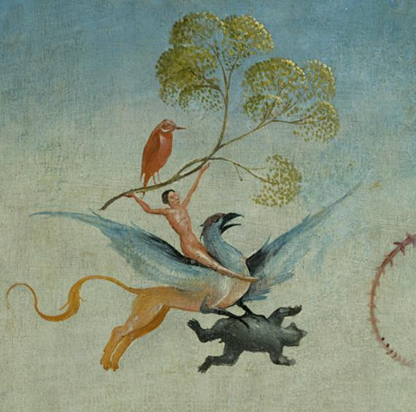 central panel [detail].